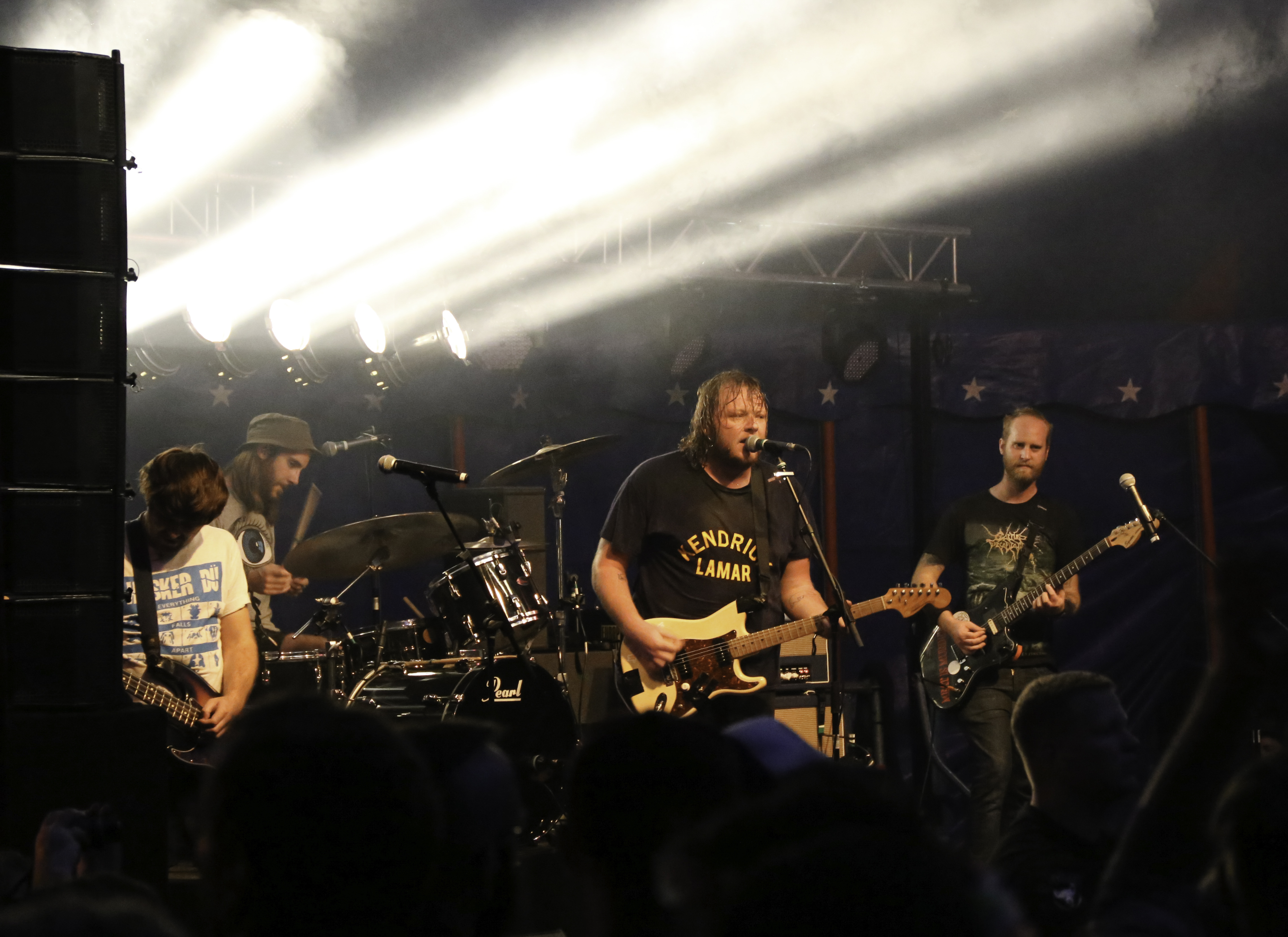 The Australian rock band The Smith Street Band at the "Rocken am Brocken" Open Air 2016 in Elend/Germany.